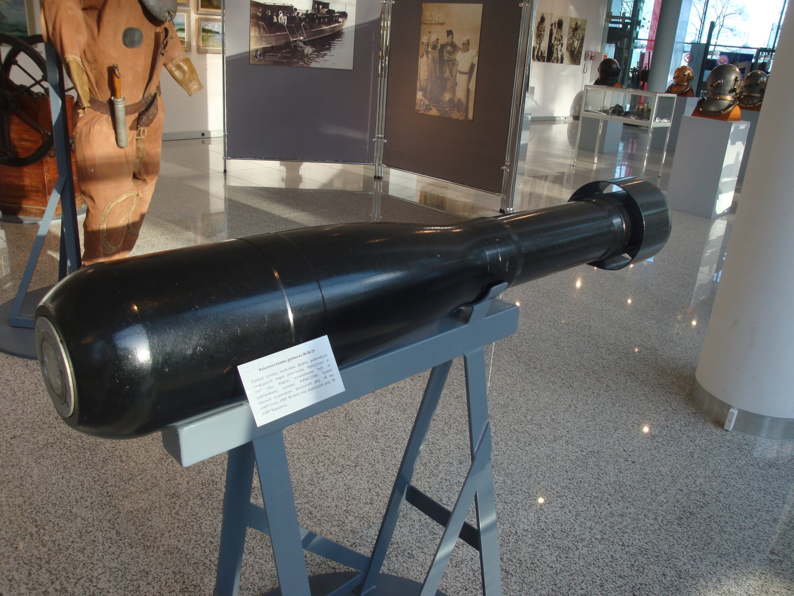 Anti-submarine mortar missile RGB-25 in Museum of Polish Navy in Gdynia.